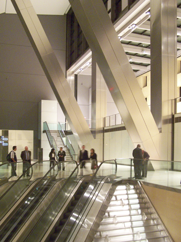 Hearst Tower (New York City). Interior view of the atrium, taken from from "Cafe 57", showing diagonal stainless steel columns, escalator and water feature.